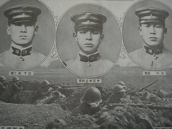 Three Human Bombs (Takeji Eshita, Inosuke Sakue, Susumu Kitagawa), Osaka Asahi